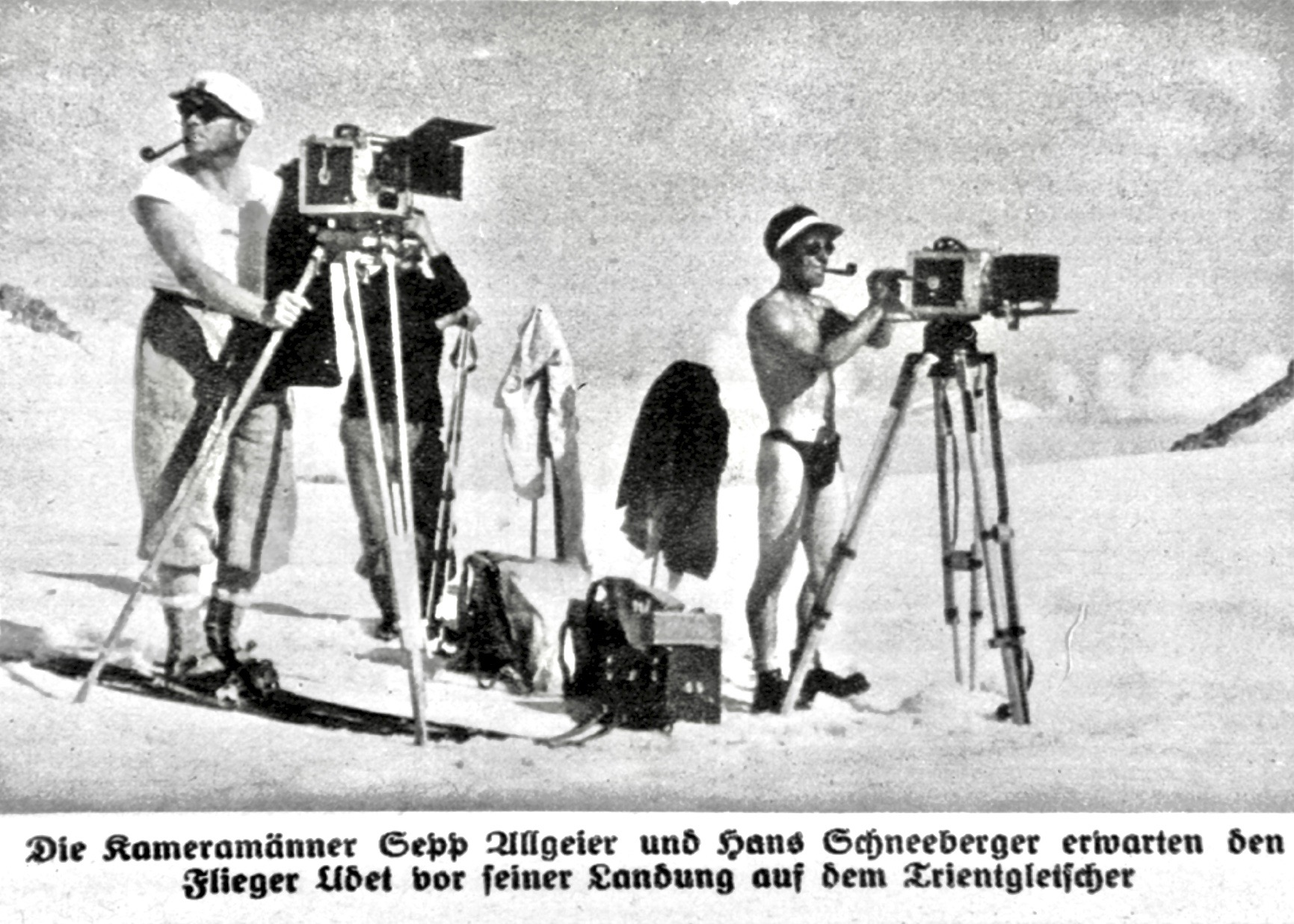 The German cameraman Sepp Allgeier (1895–1968) and his Austrian colleague Hans Schneeberger (1895–1970) at Trient Glacier situated in the Mont Blanc Massif in the canton of Valais in Switzerland. Both were shooting the movie Storm over Montblanc by director Arnold Fanck (1889–1974), starring Leni Riefenstahl (1902–2003), Sepp Rist (1900–1980), Ernst Udet (1896–1941). – The printed text reads: The cameramen Sepp Allgeier and Hans Schneeberger are waiting for the pilot Udet prior to his landing at Trient Glacier